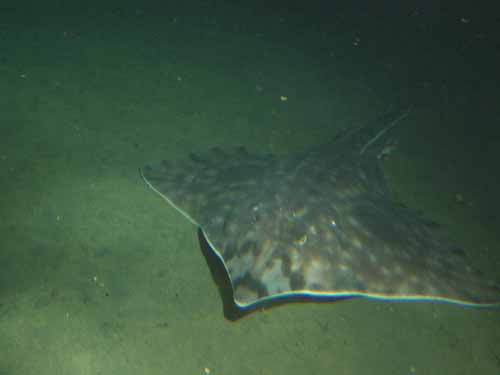 Male big skate (Beringraja binoculata - synonym: Raja binoculata observed off Pt Pinos during a sanctuary seafloor monitoring survey using the Delta submersible.